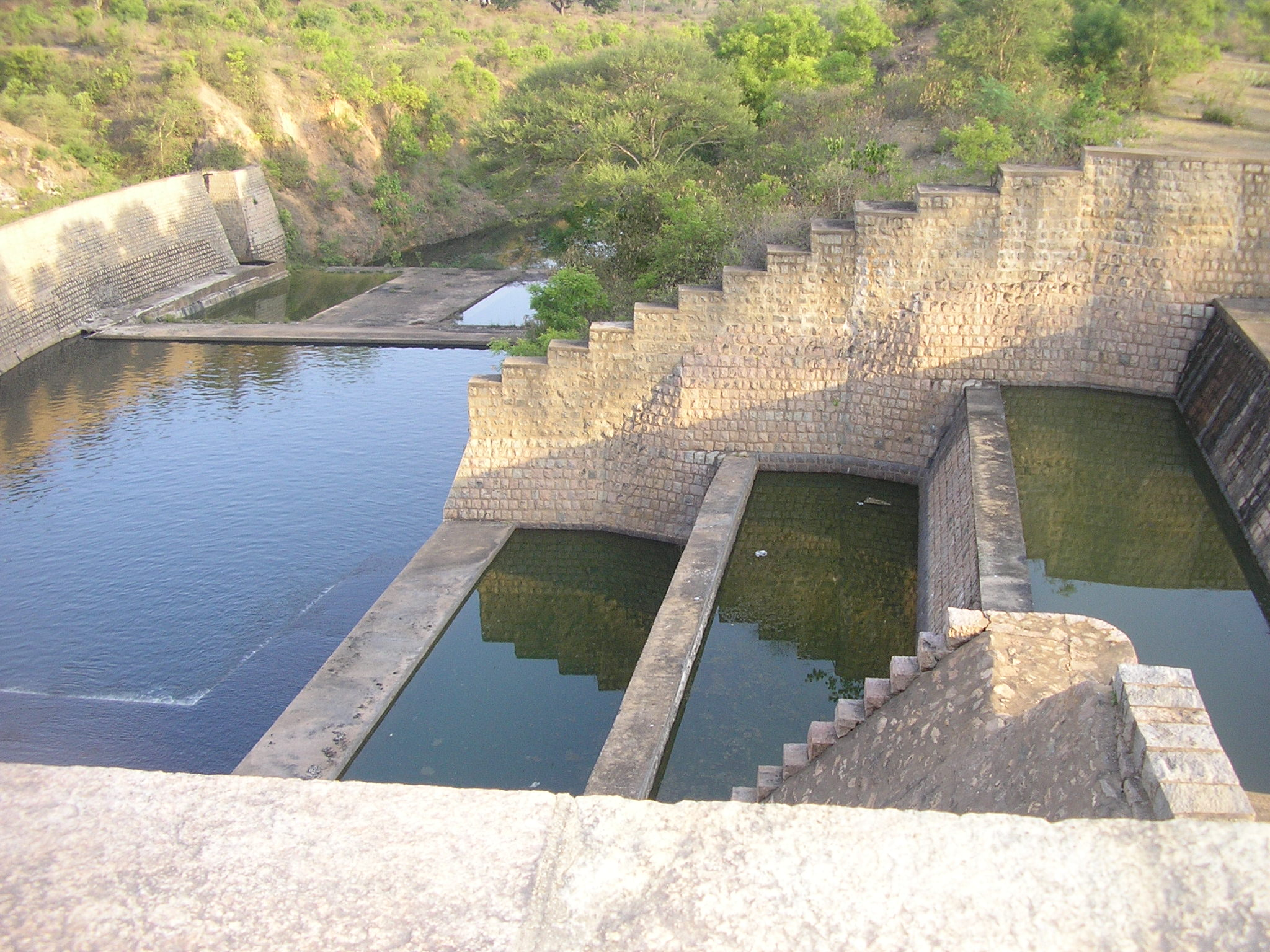 Tippagondanahalli dam